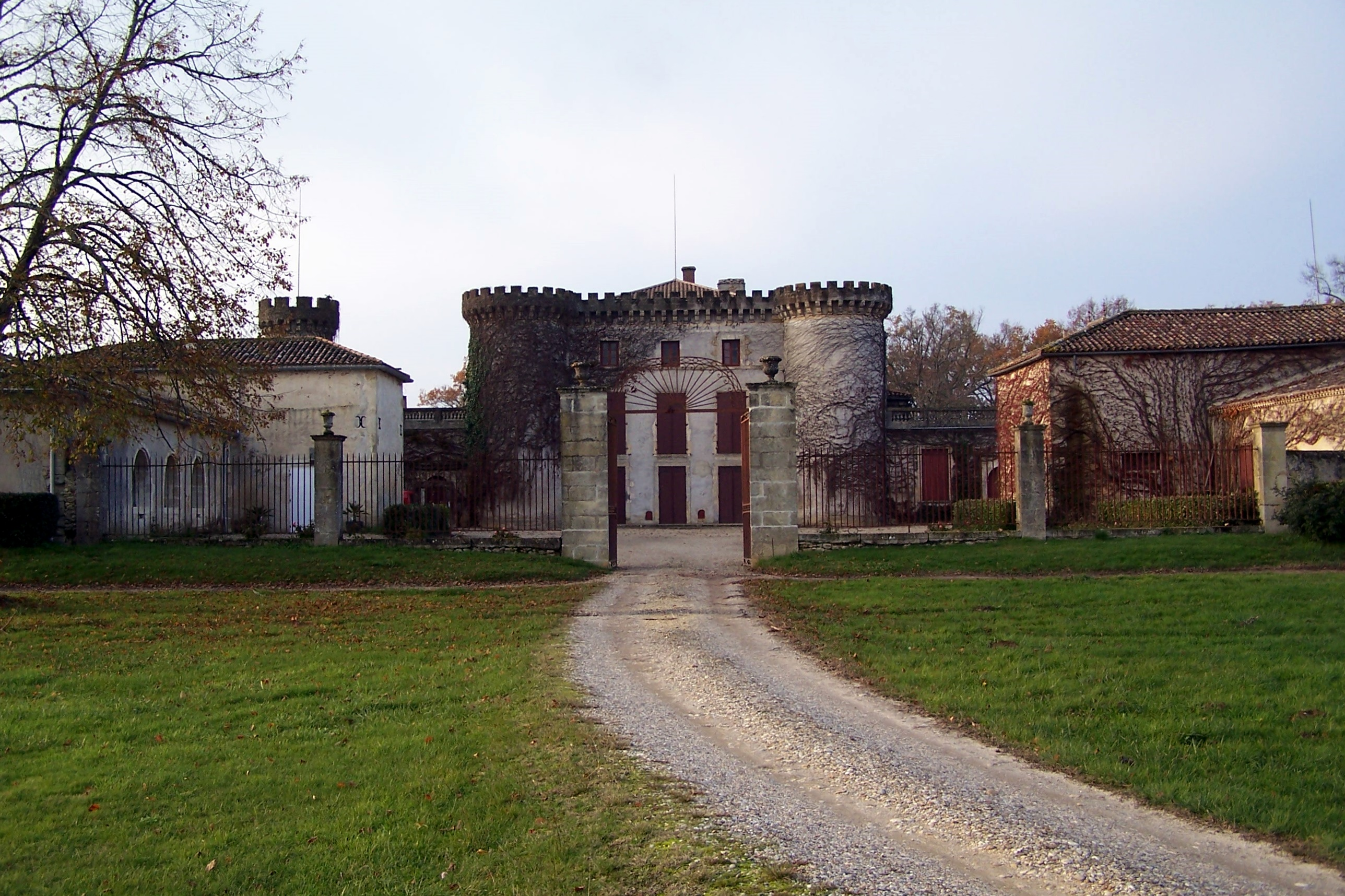 Castle of the Mirail in Brouqueyran (Gironde, France)